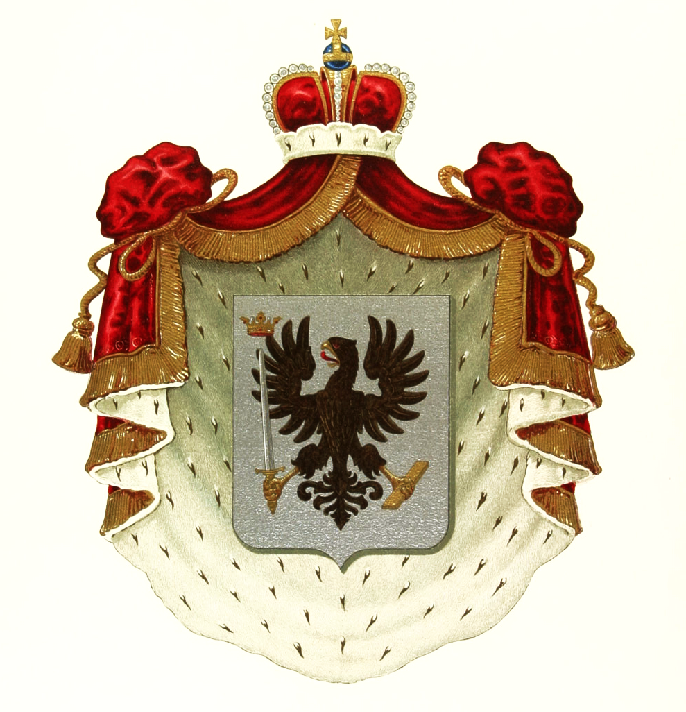 Coat of Arms of family Lyapunow